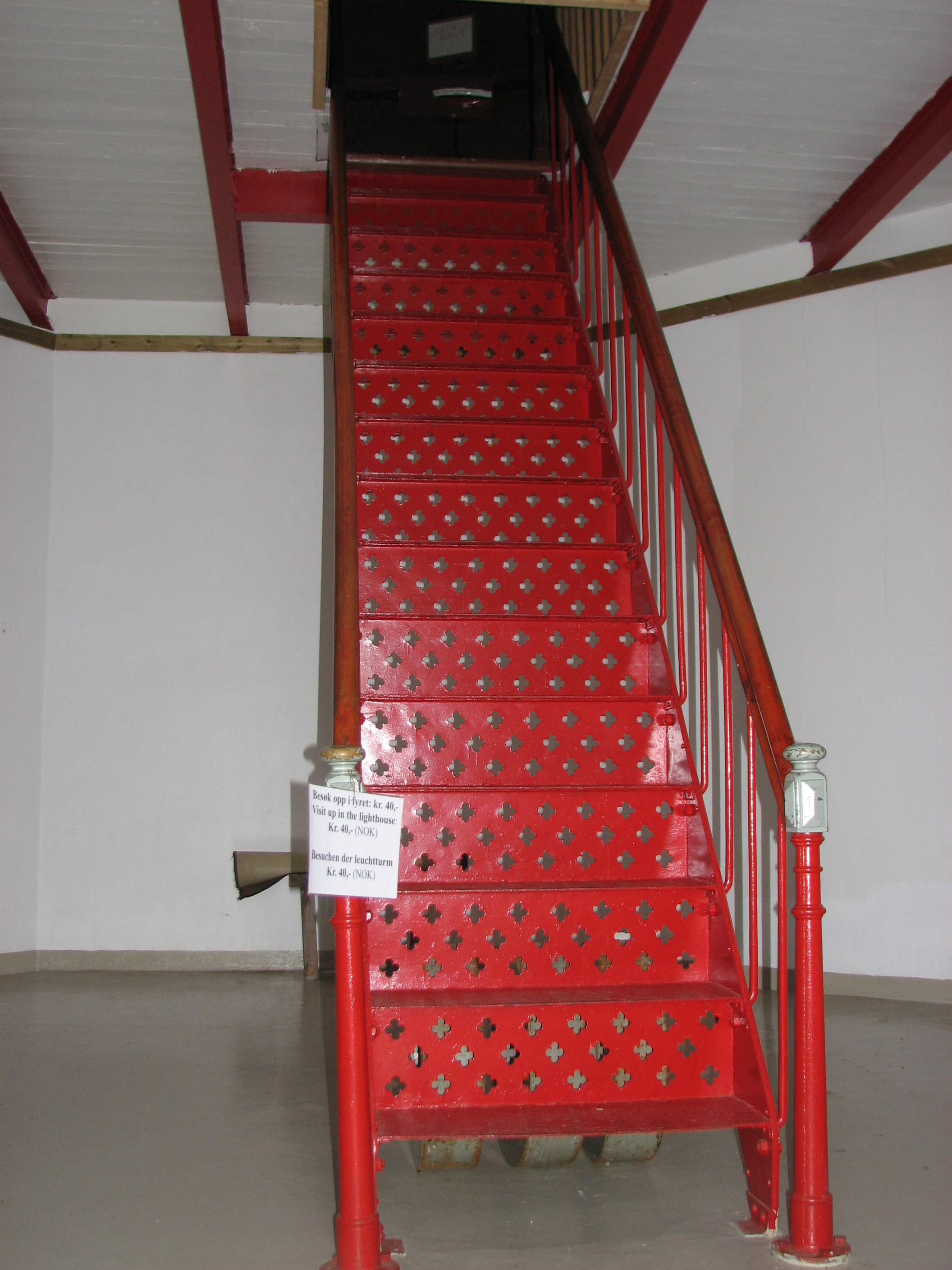 Slettnes lighthouse, near Gamvik, Norway